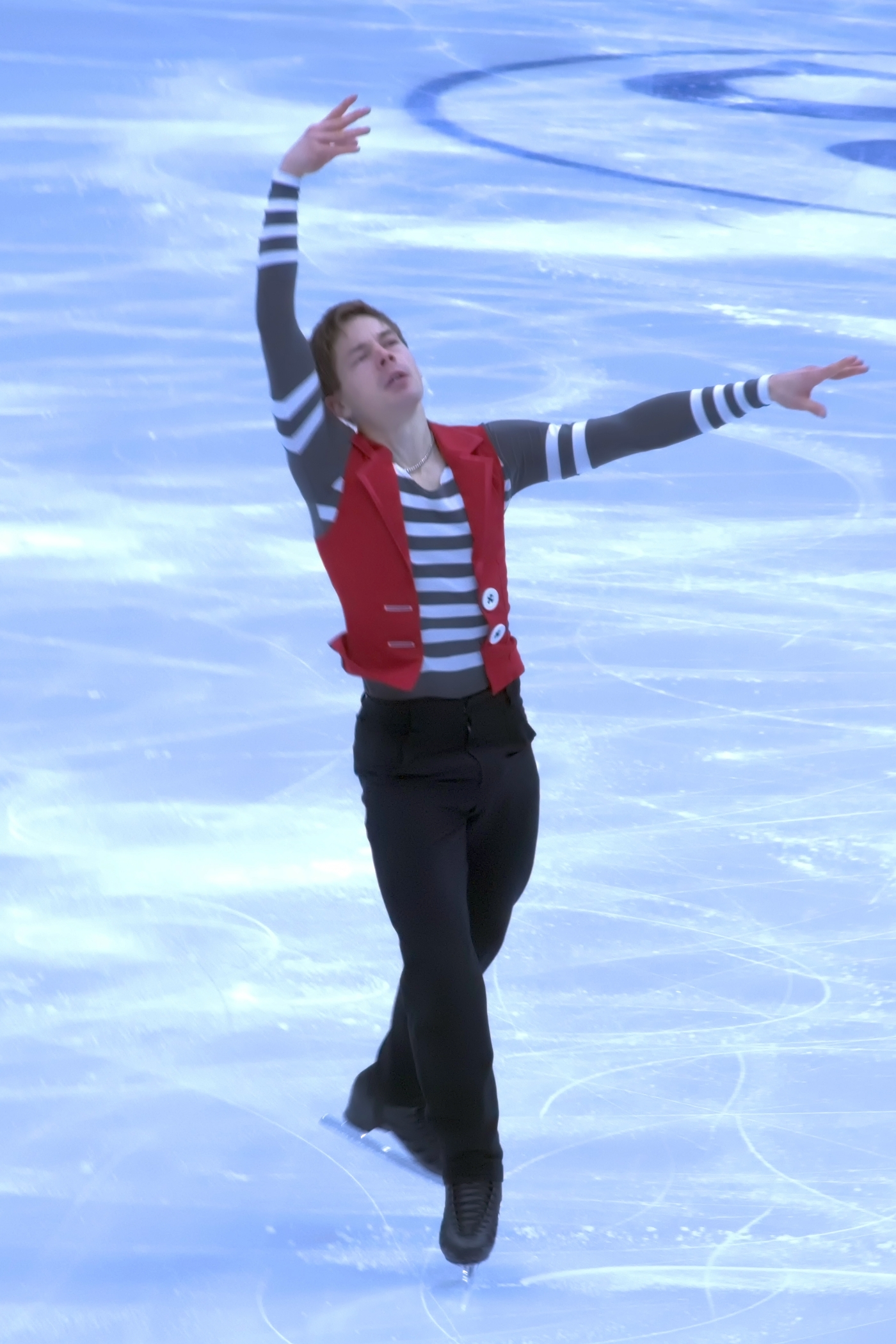 Valtter Virtanen (Finland) at the 2018 European Figure Skating Championships in Moscow